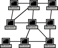 Mesh network topology, own work